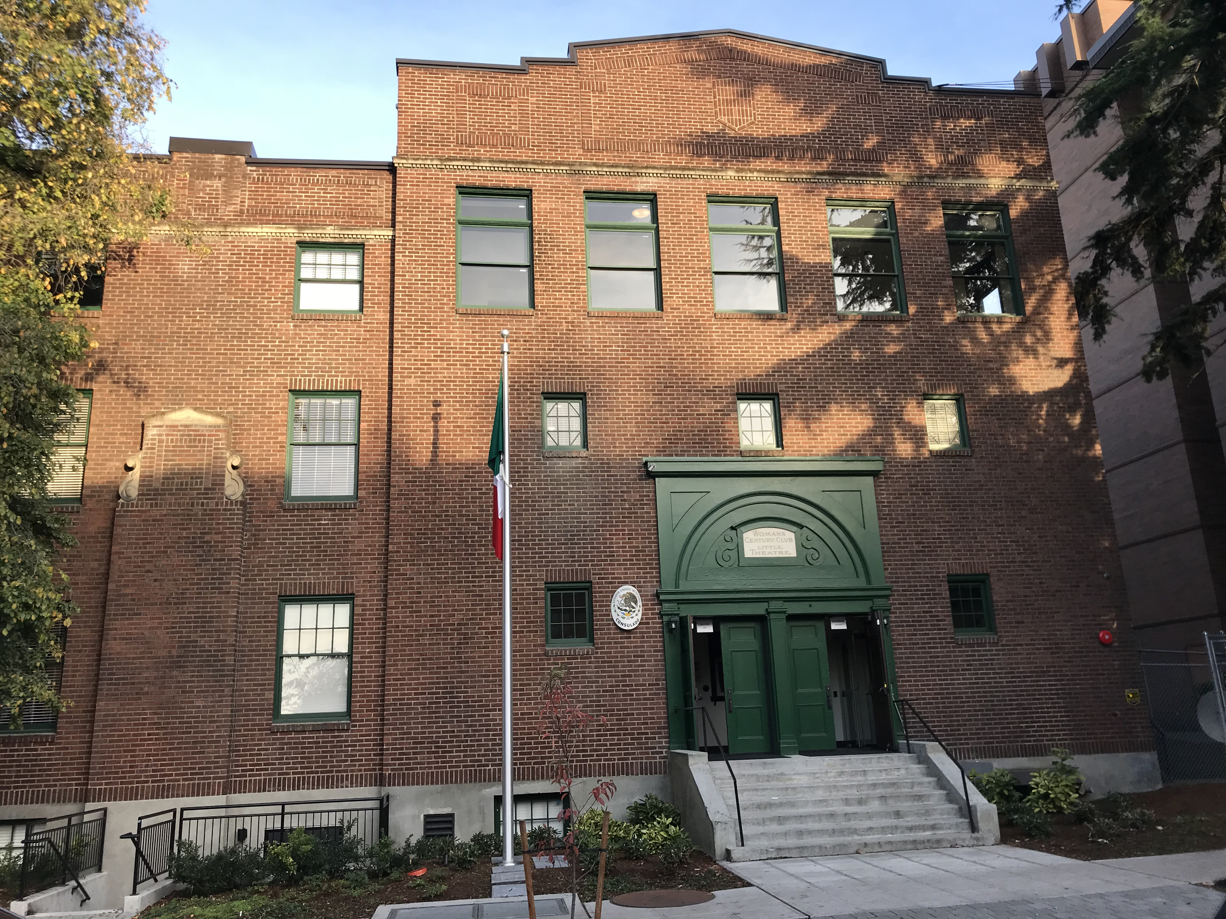 Consulate of Mexico in Seattle, Washington, USA.